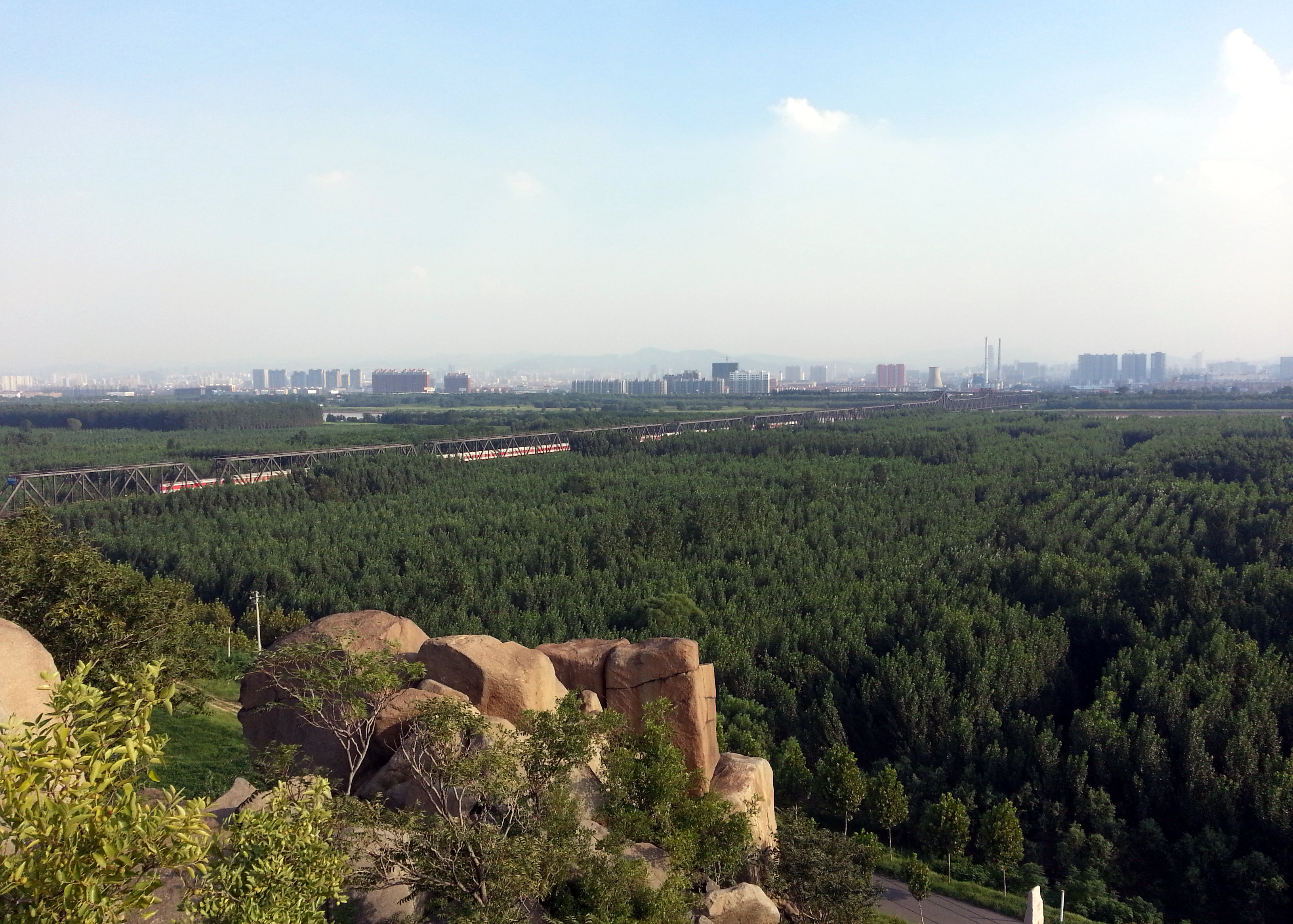 Photograph of the Luokou Yellow River railway bridge in Jinan, Shandong, China see from near the peak of Que Hill on the northern bank of the Yellow River.